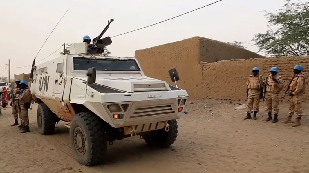 Blue helmets of the MINUSMA in the Goundam array, Mali, April 2015.